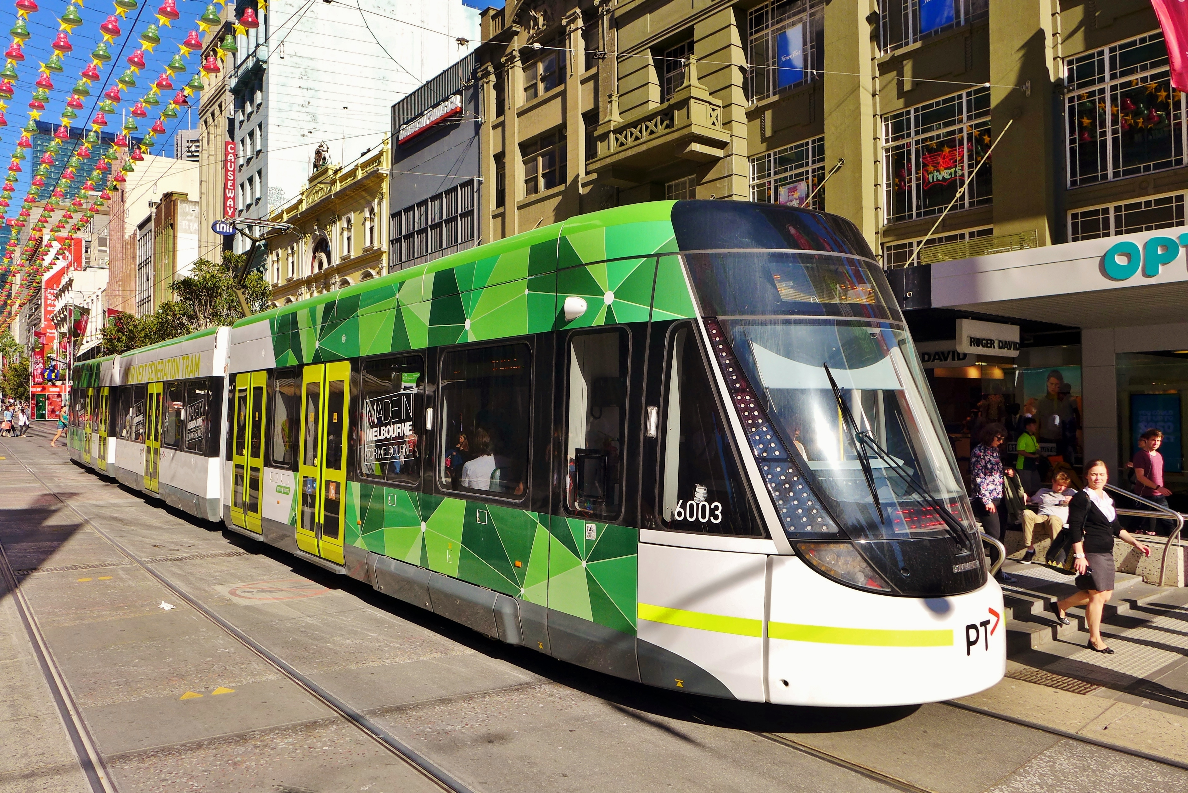 E class tram no 6003 at the Elizabeth Street stop in Bourke Street Mall, with a route 96 service from East Brunswick to St Kilda Beach in Melbourne, Australia.